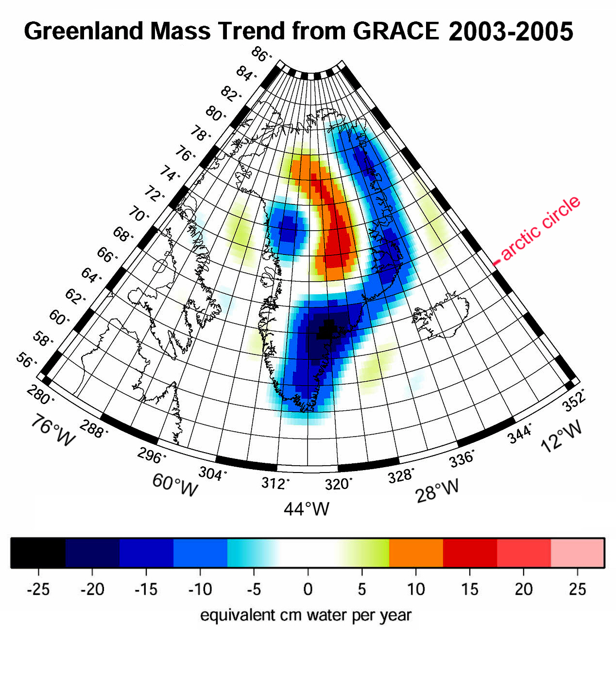 NASA satellite data has revealed regional changes in the weight of the Greenland ice sheet between 2003 and 2005. Low coastal regions (blue) lost three times as much ice per year from excess melting and icebergs than the high-elevation interior (orange/red) gained from excess snowfall.